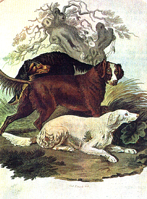 Three major types of setters.